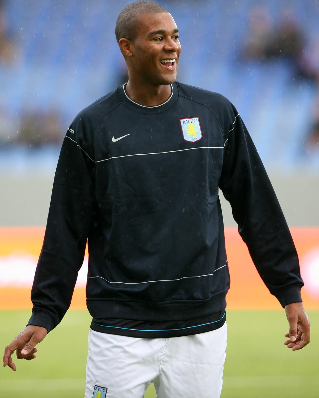 Zat Knight